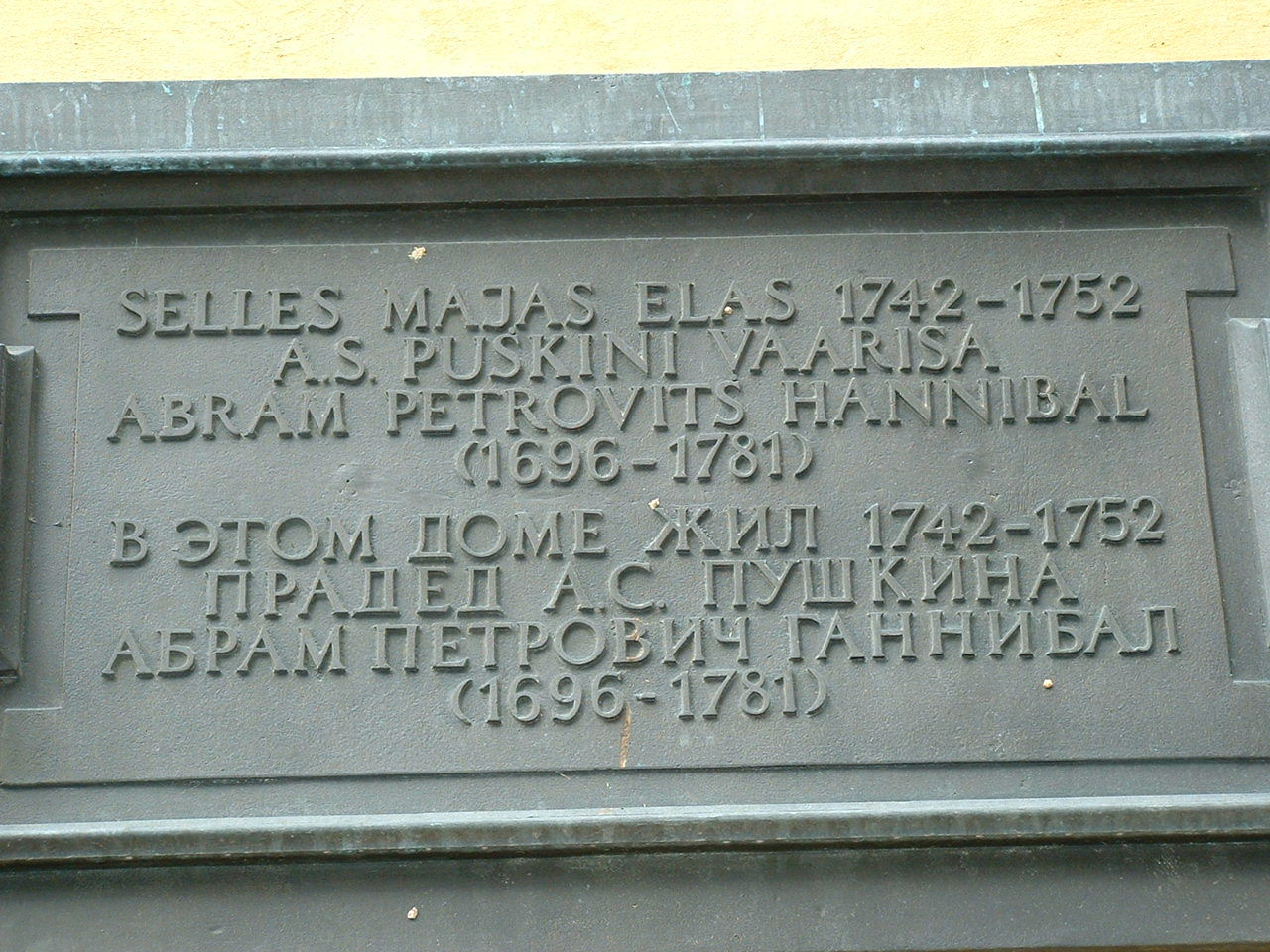 The house of the military commander of Reval (Tallinn). The sign says: In this building lived in 1742-1752 the great grandfather of A. S. Pushkin, Abram Petrovich Hannibal (1696-1781)